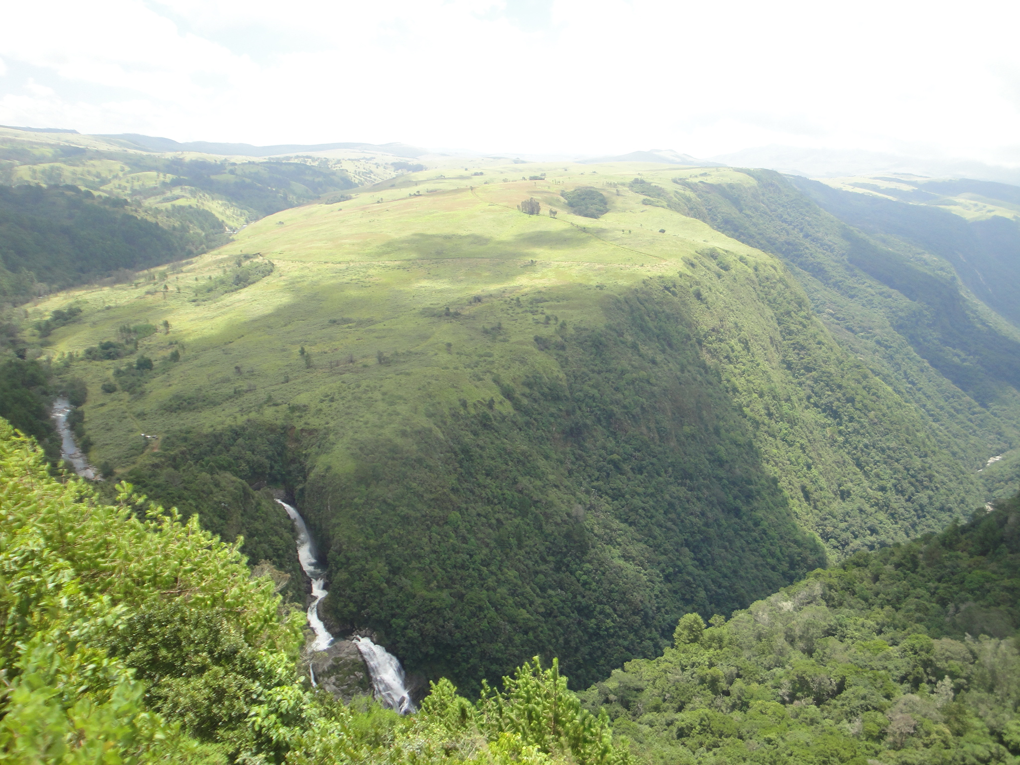 Pungwe Falls, Nyanga National Park, Zimbabwe